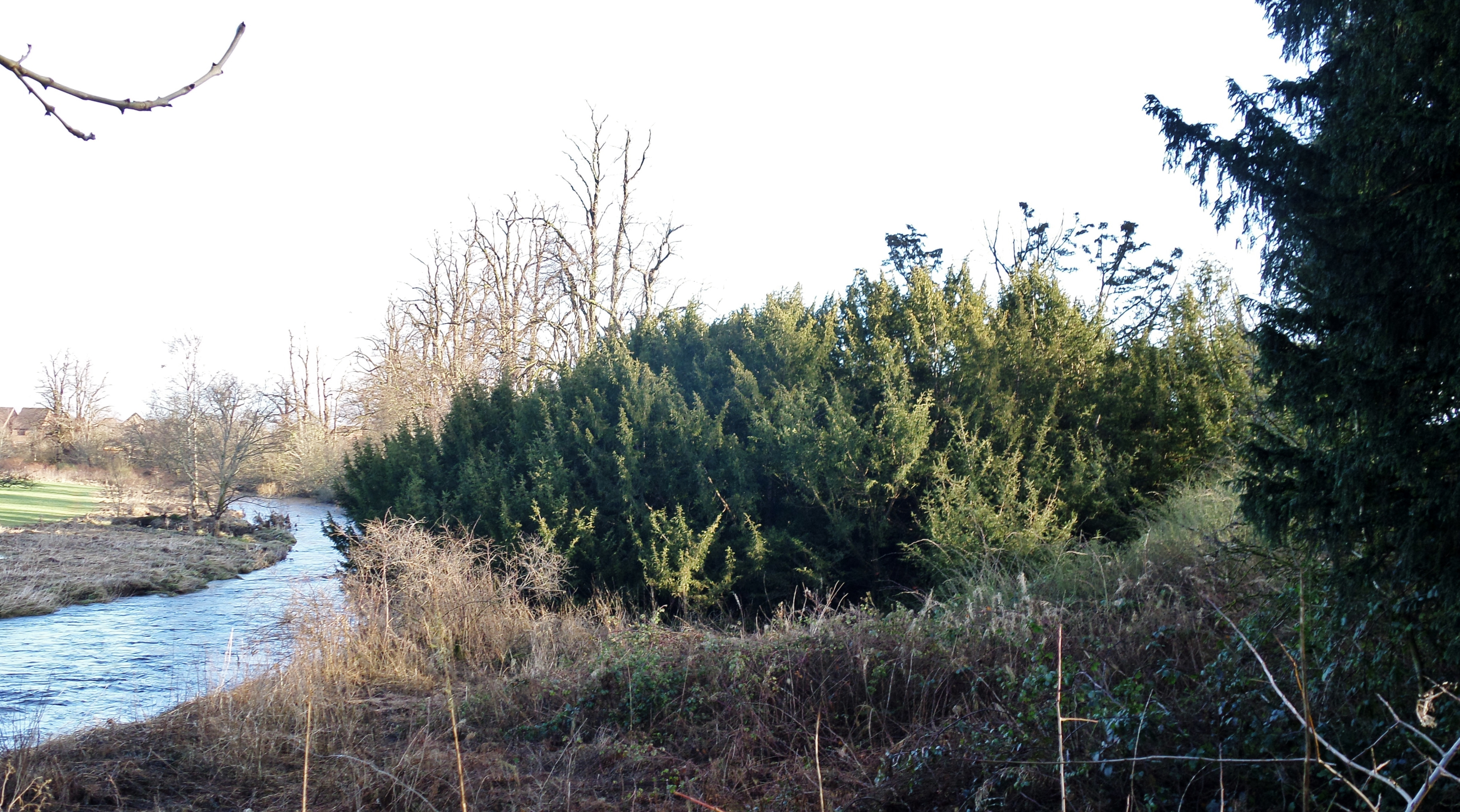 Craigends Yew grove, Houston, Renfrewshire - view from the old ice house